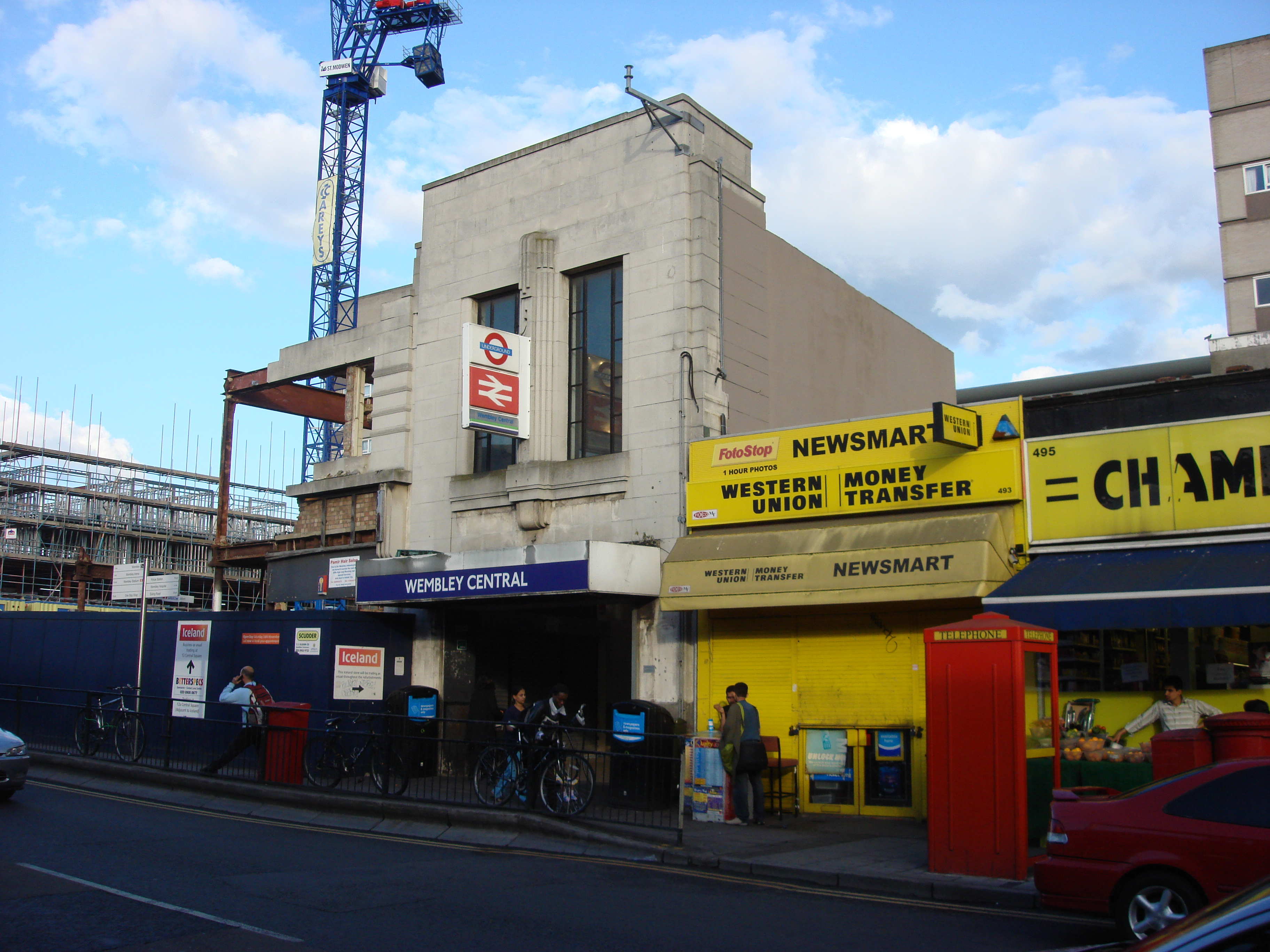 Wembley Central station